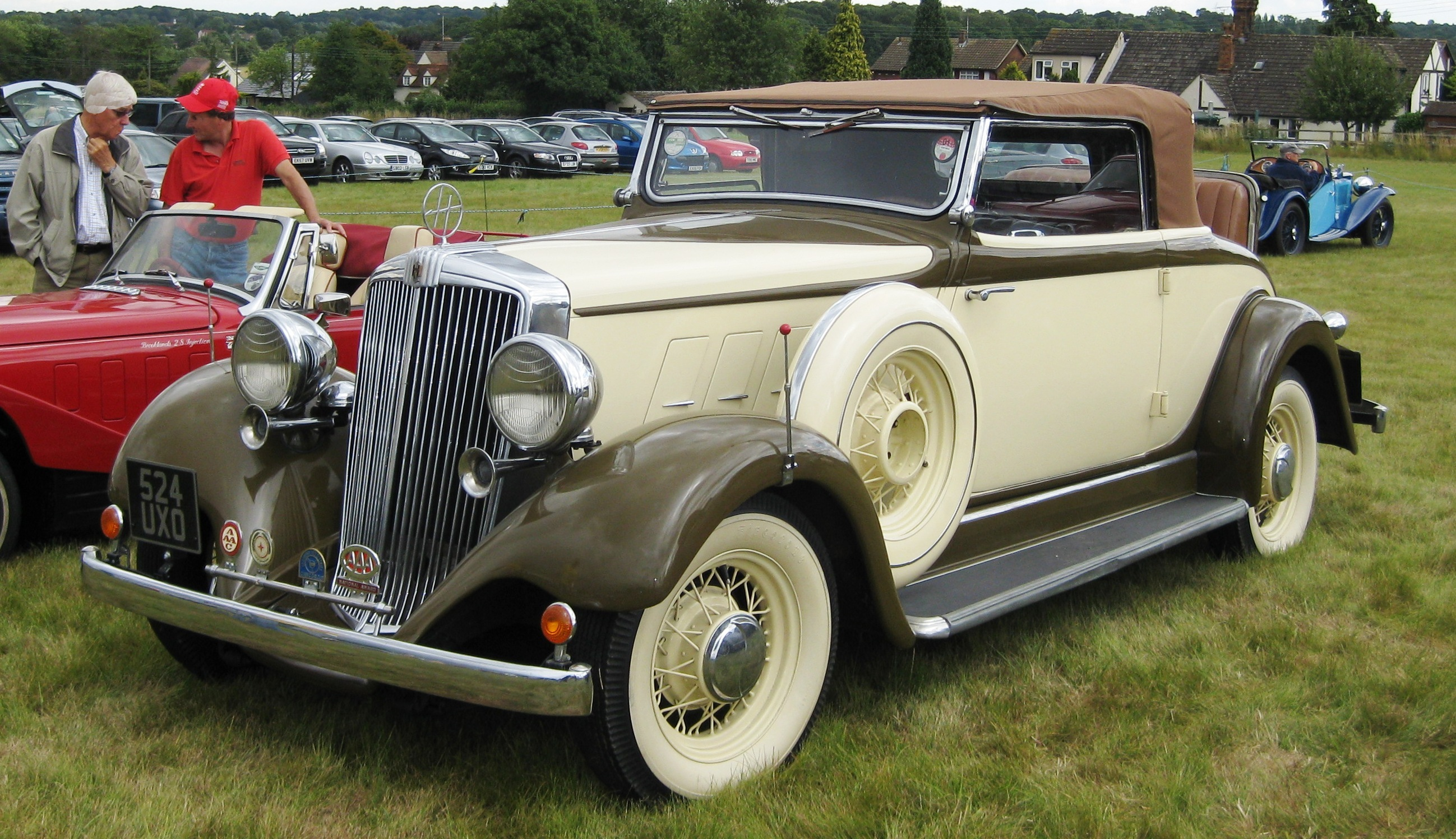 Hopmobile at Oldtimerfest in Essex with dickey-seat exposed